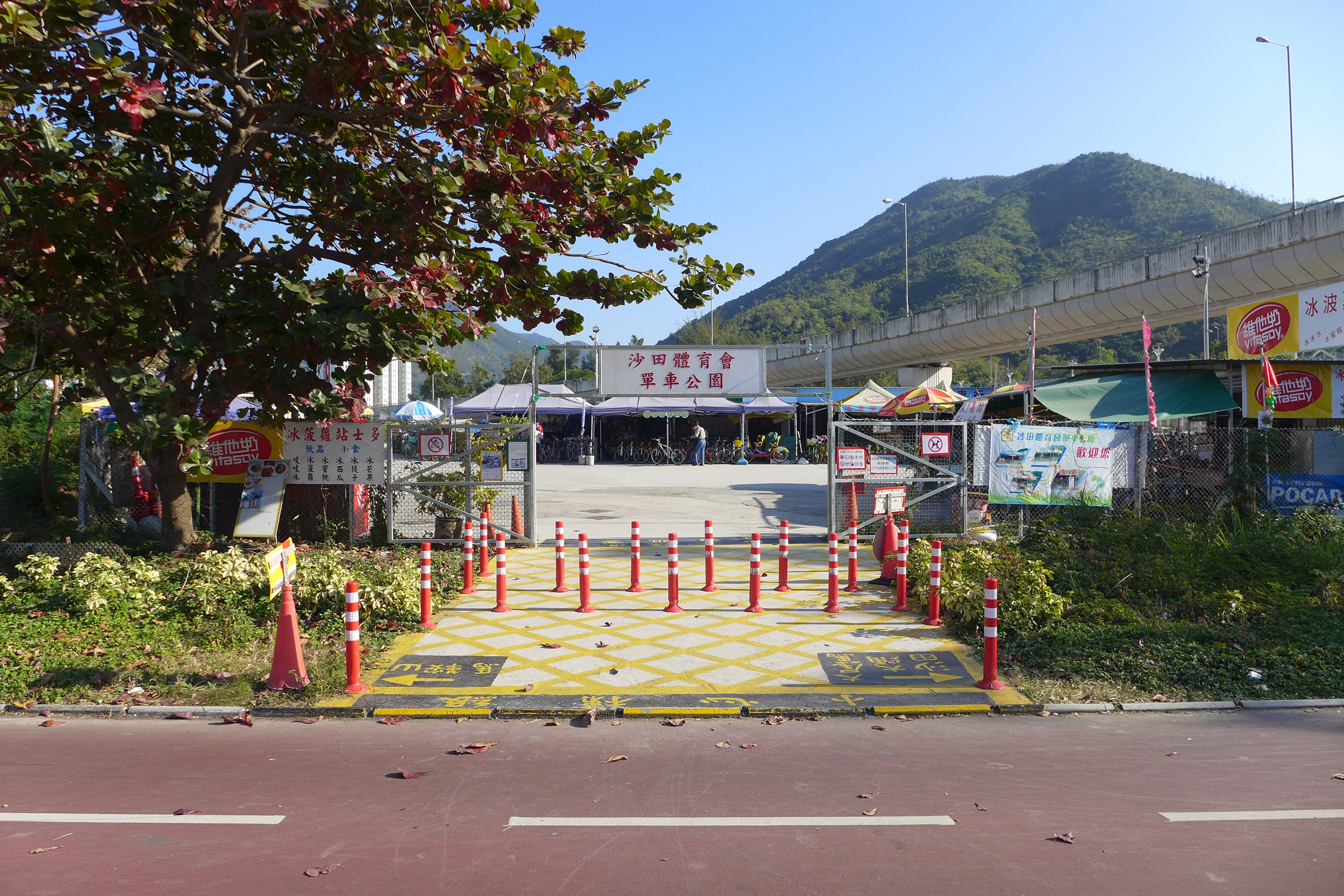 Tai Shui Hang Cycle Park in Area 73 Entrance